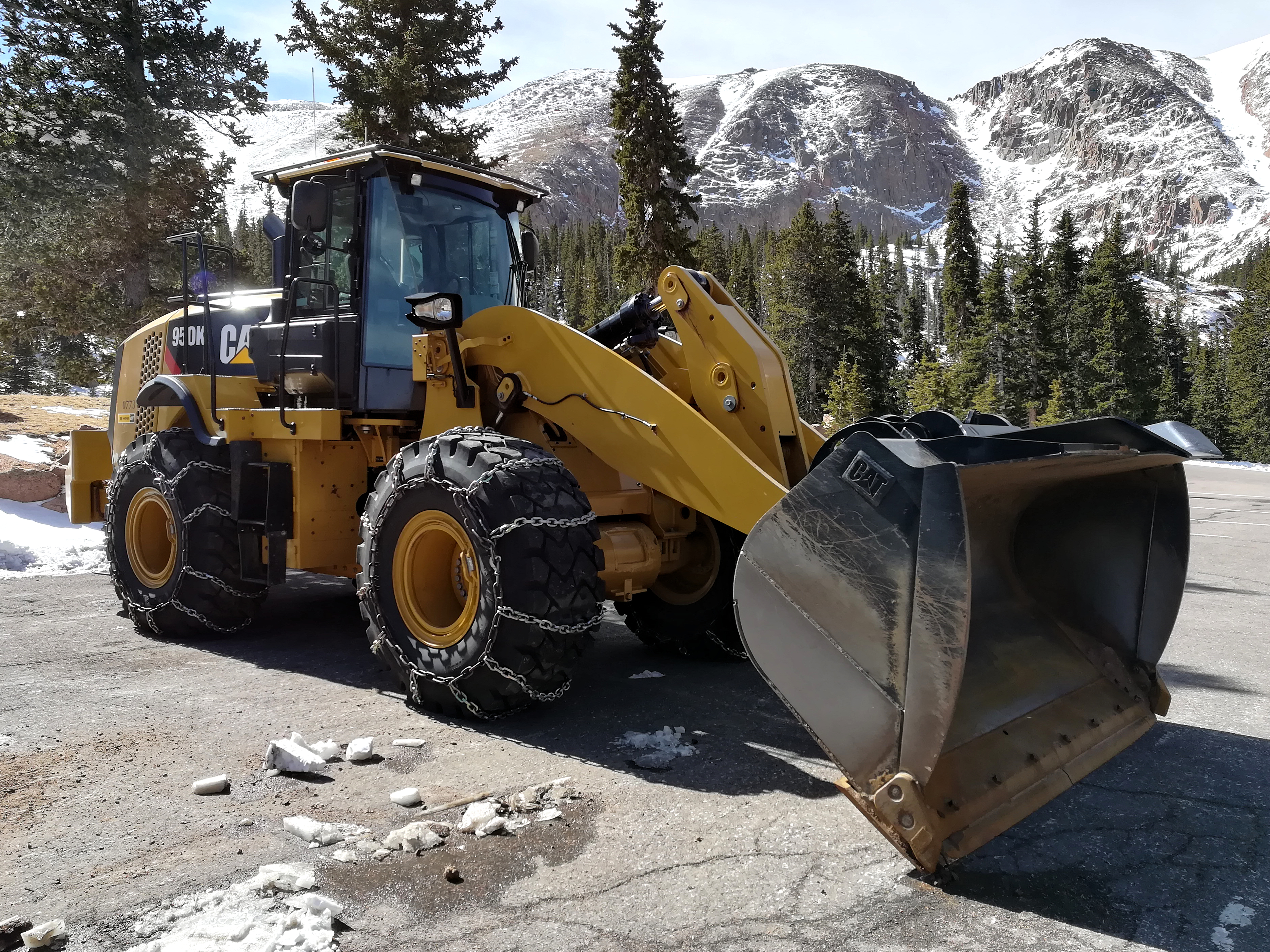 Caterpillar 950K